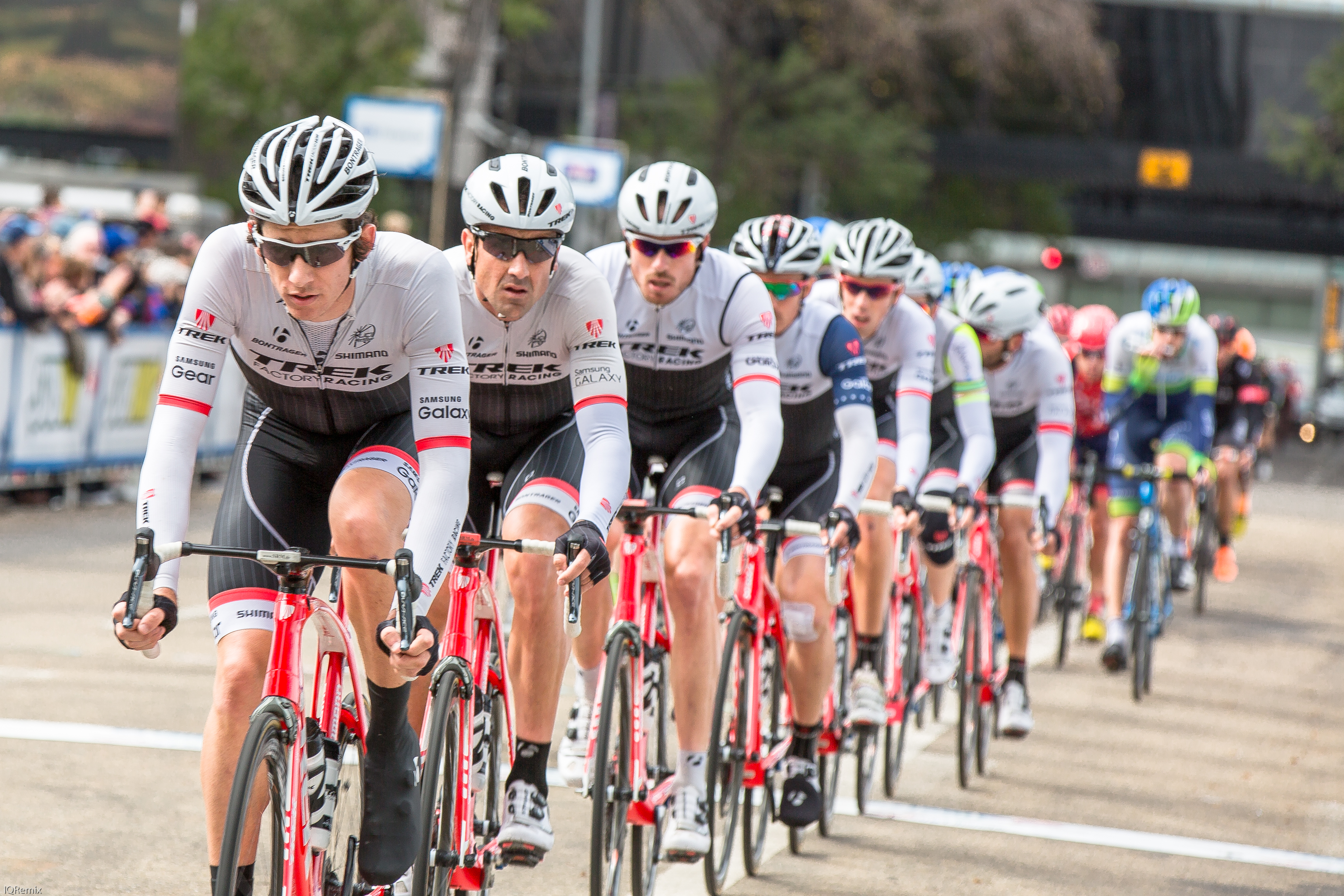 Tour of Alberta 2015 - Edmonton